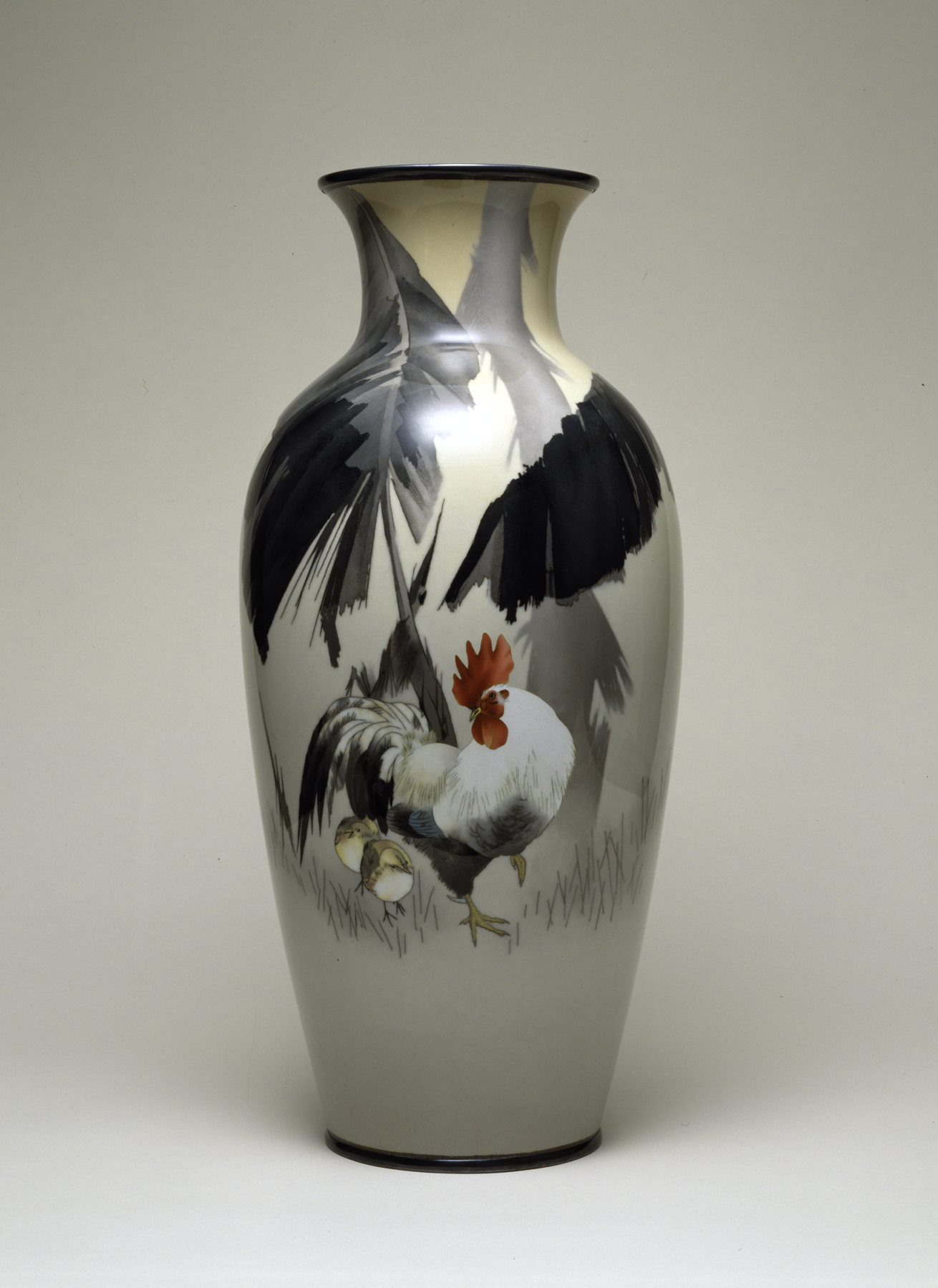 This cloisonné vase features a rooster, a hen, and chicks among banana plants.